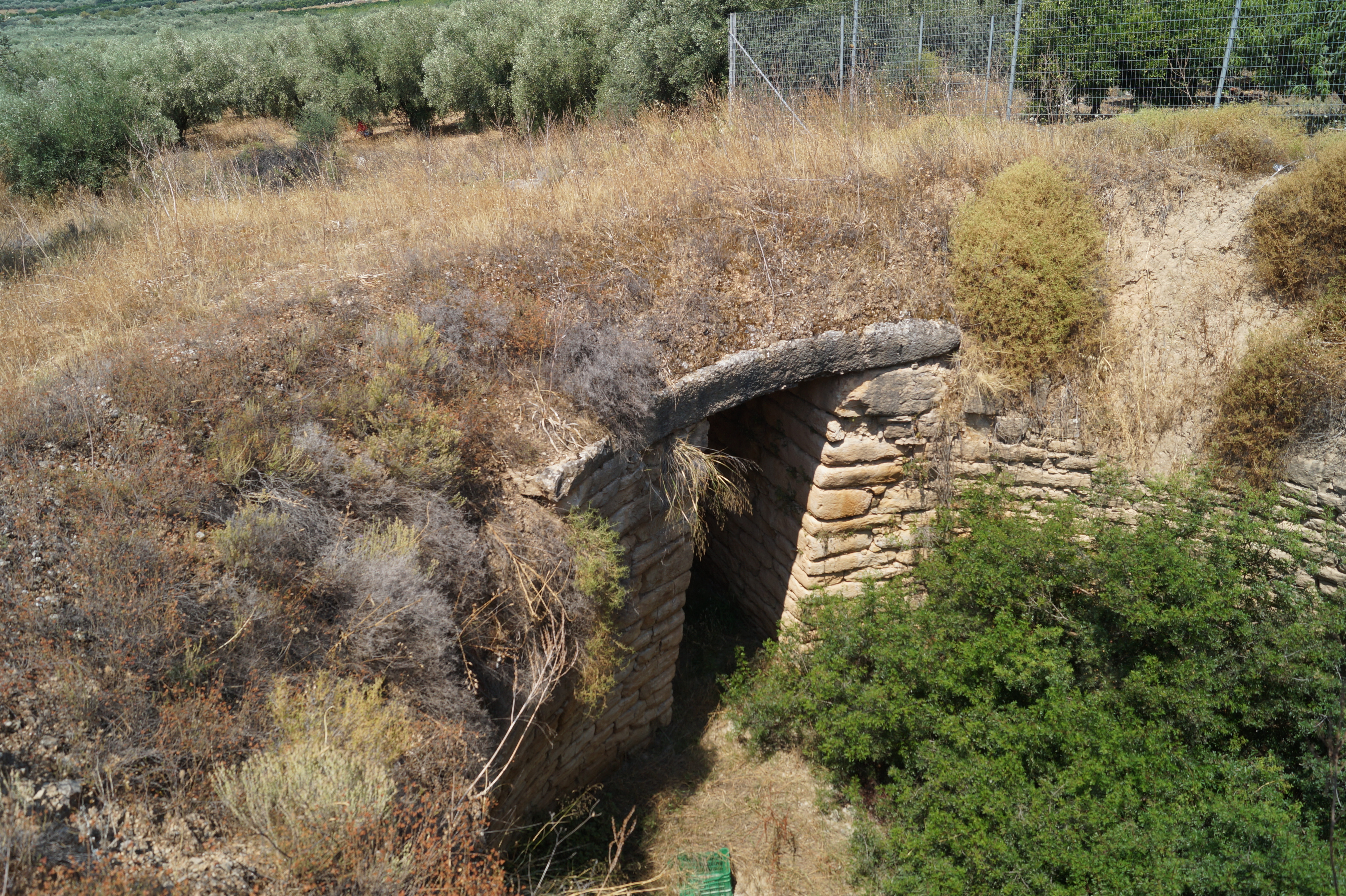 Prosymna, Argolis, Greece: Prosymna Tholos.